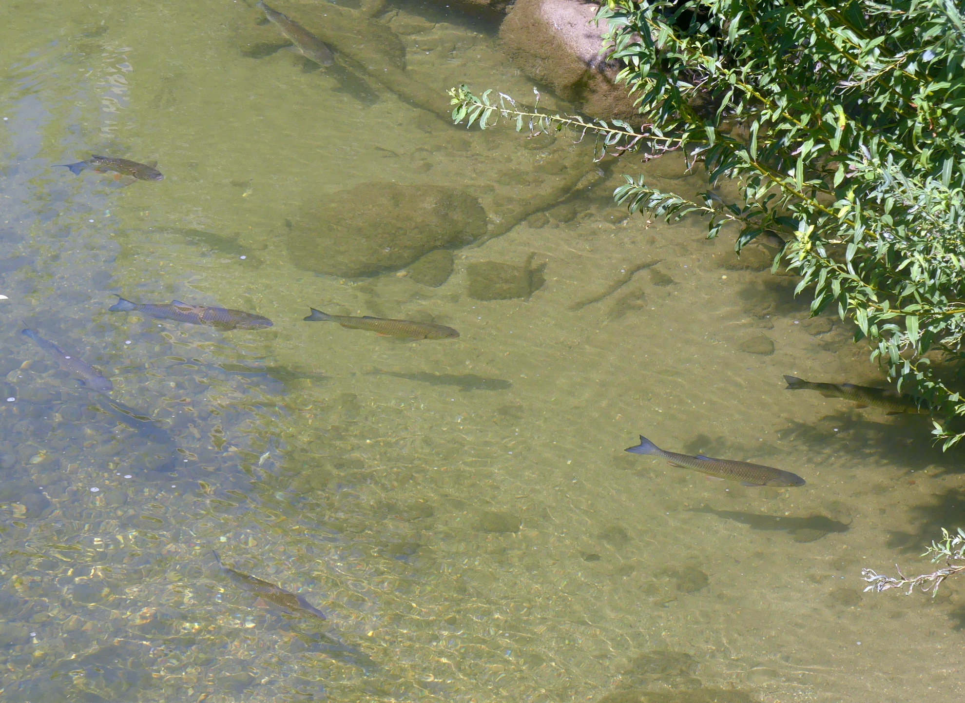 Sight, in summer, of European chubs and one brown trout (hiding on the right), trying to swim in a tiny area of deep water in the Leysse river at low tide, in Chambéry downtown, Savoie, France.